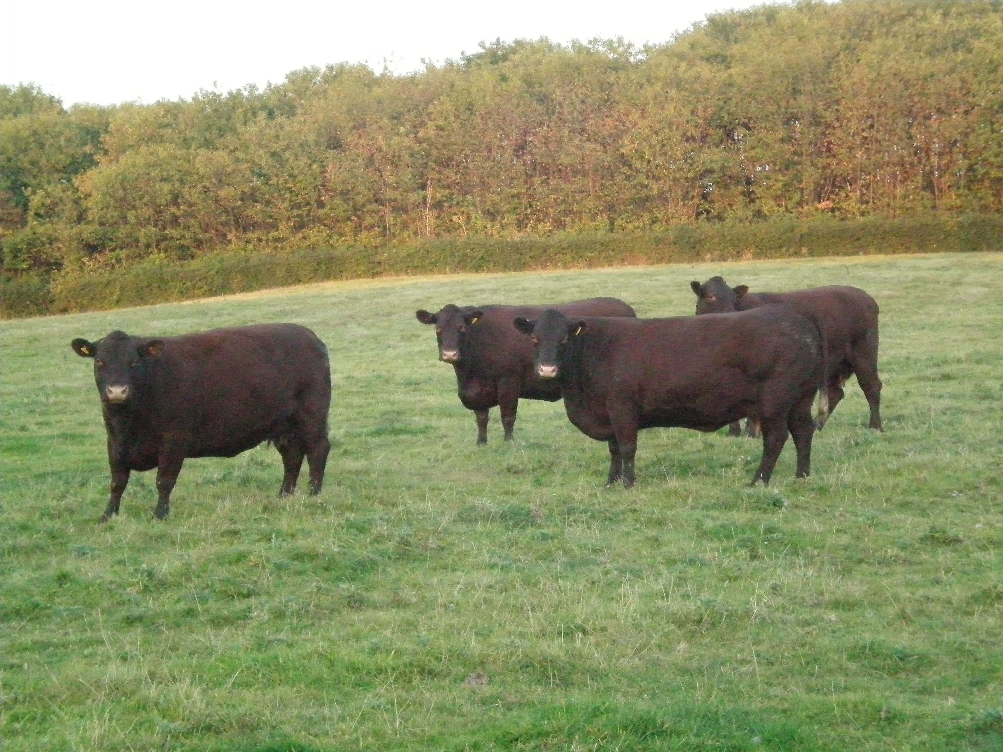 Sussex breed cows seen near Petworth, West Sussex, England.